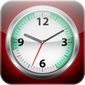 DueTime Icon